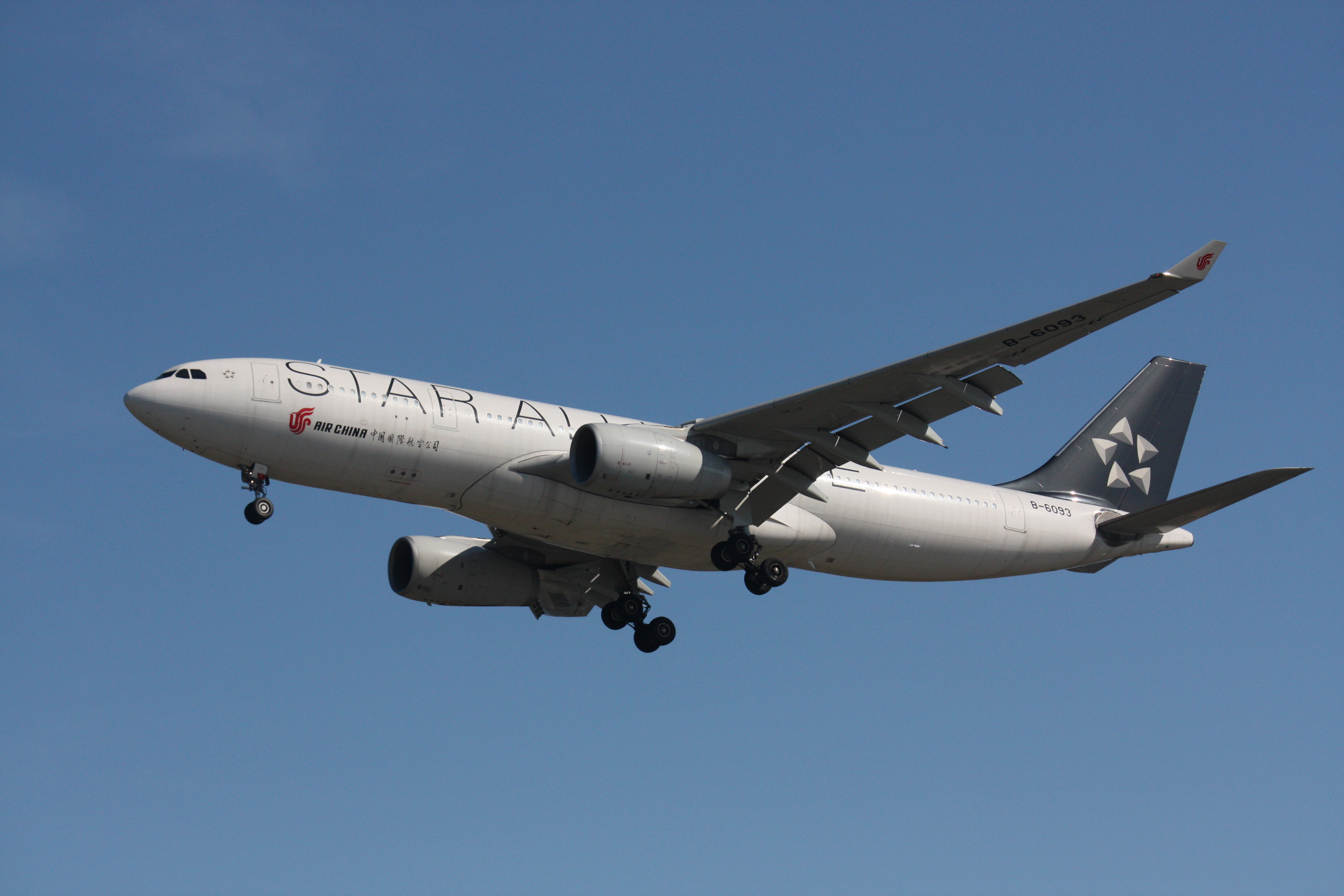 An Air China Airbus A330-243, in Star Alliance livery, landing at Vancouver International Airport